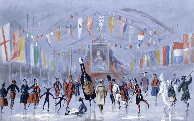 Fancy Ball at the Victoria Rink, Montreal, 1865–1866